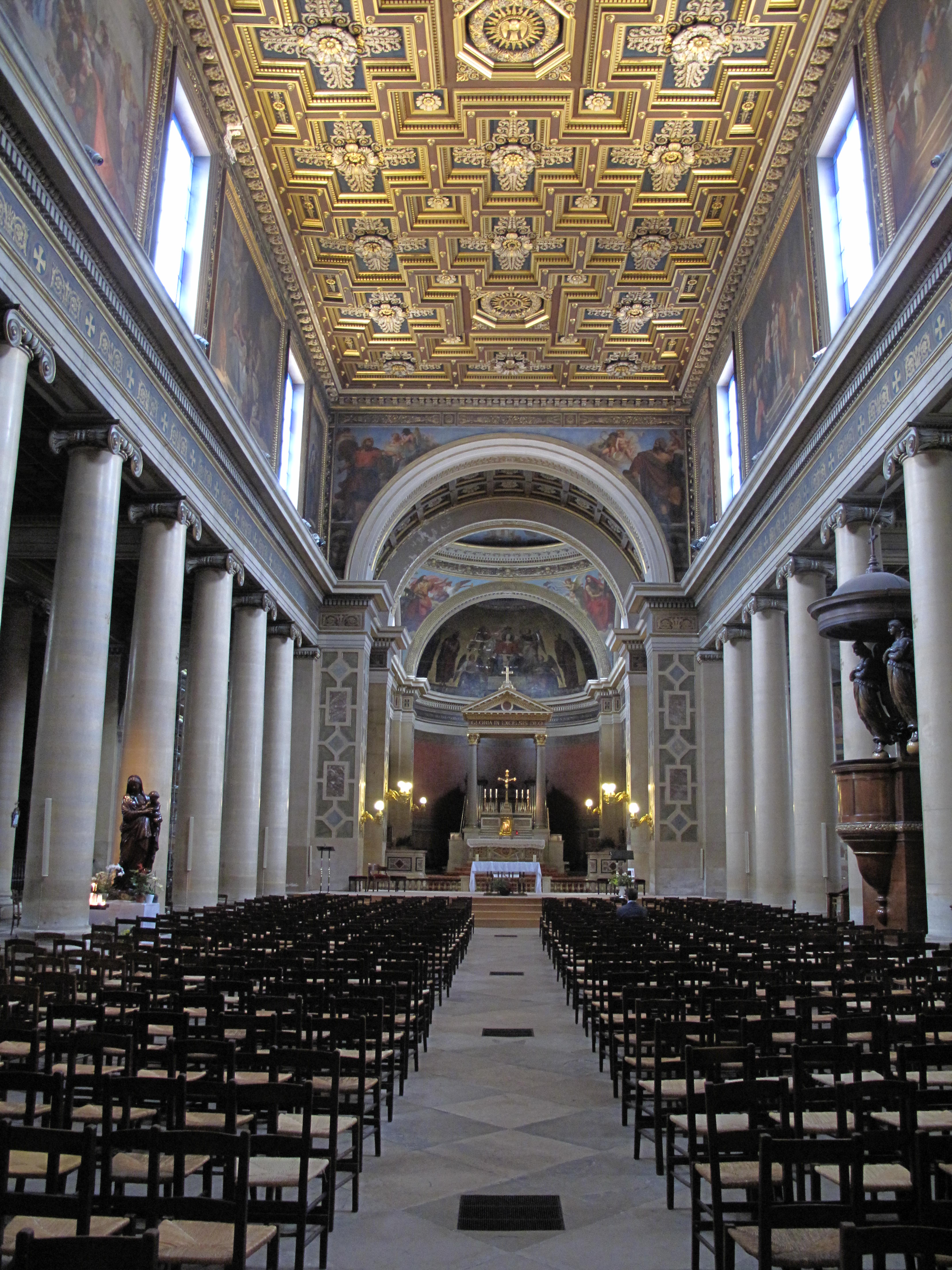 Nave of the church Notre-Dame-de-Lorette, Paris 9th arr.